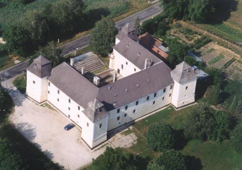 Egervár, Hungary, aerialphotography This is a photo of a monument in Hungary, Identifier: 10807